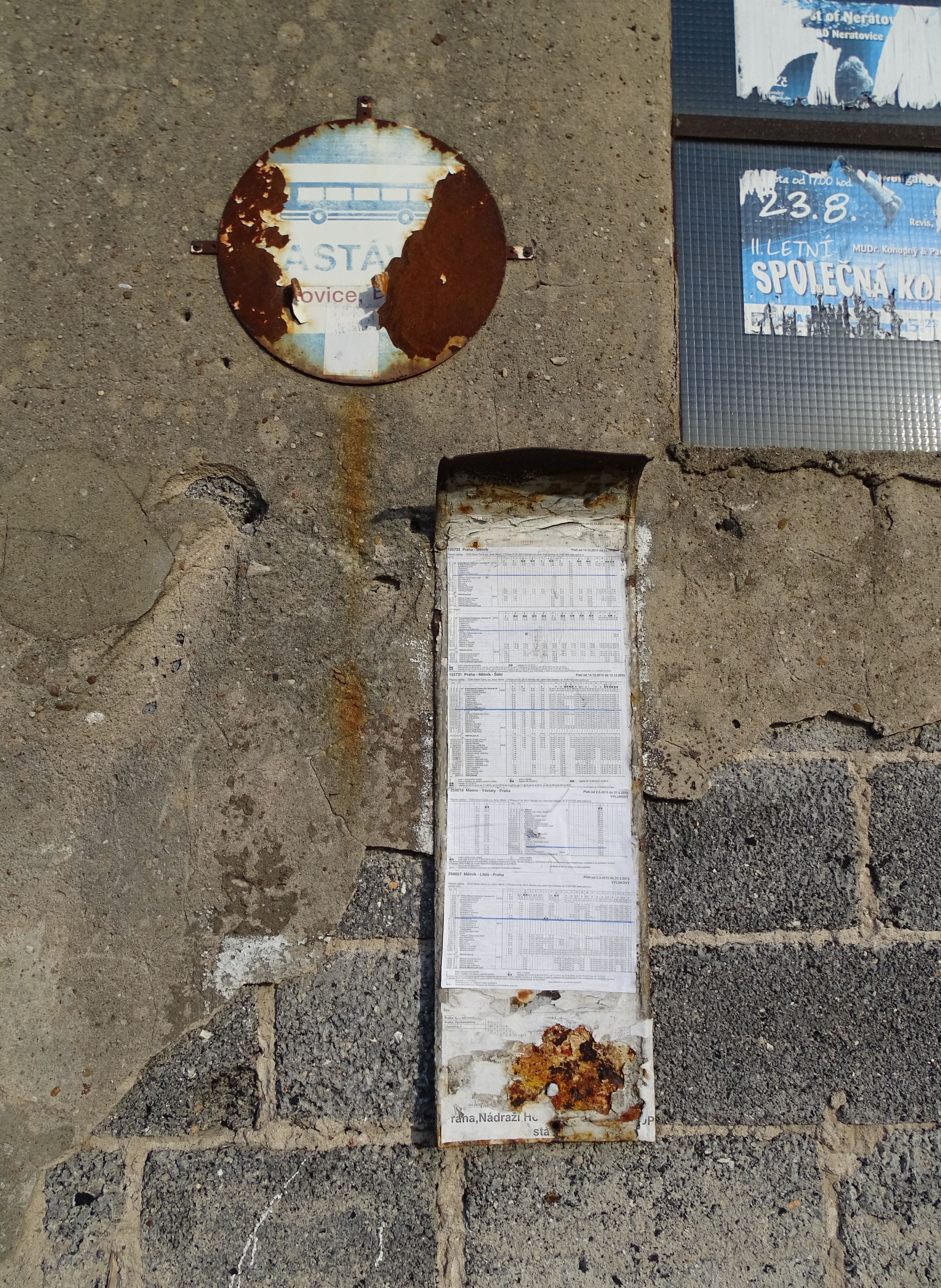 Neratovice-Byškovice, Mělník District, Central Bohemian Region, Czech Republic. Pražská street, a bus stop.